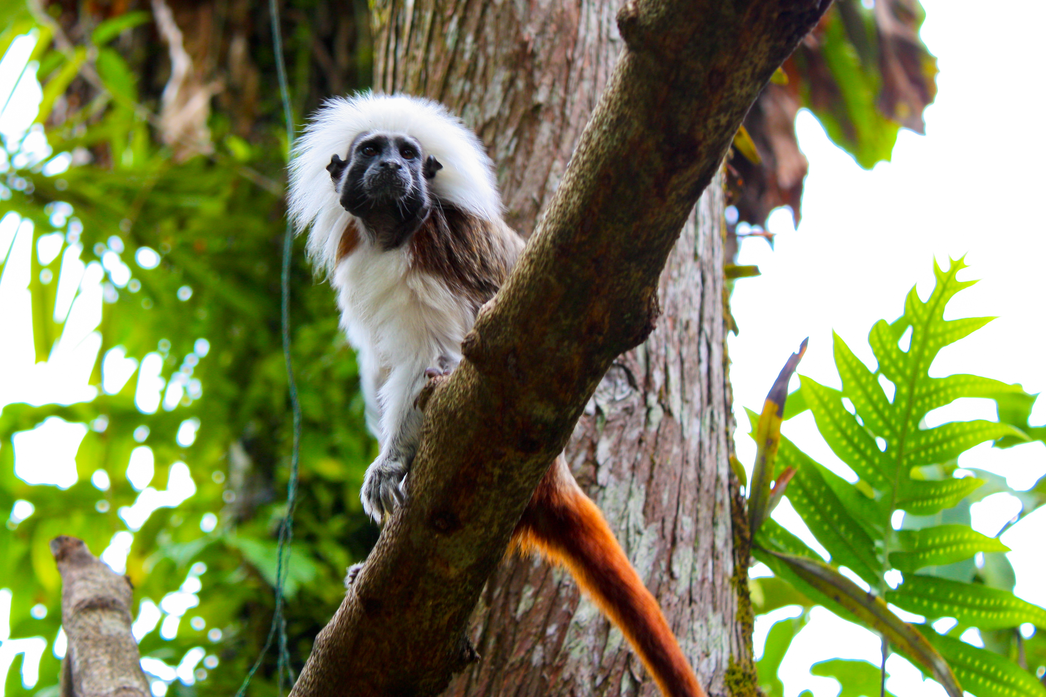 A cotton-top tamarin (Saguinus oedipus) in the Singapore Zoo.